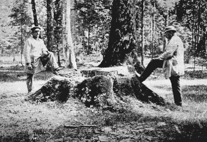 Henryk Sienkiewicz and Zygmunt Gloger in Białowieża Forest, near 500-years old oak-stub